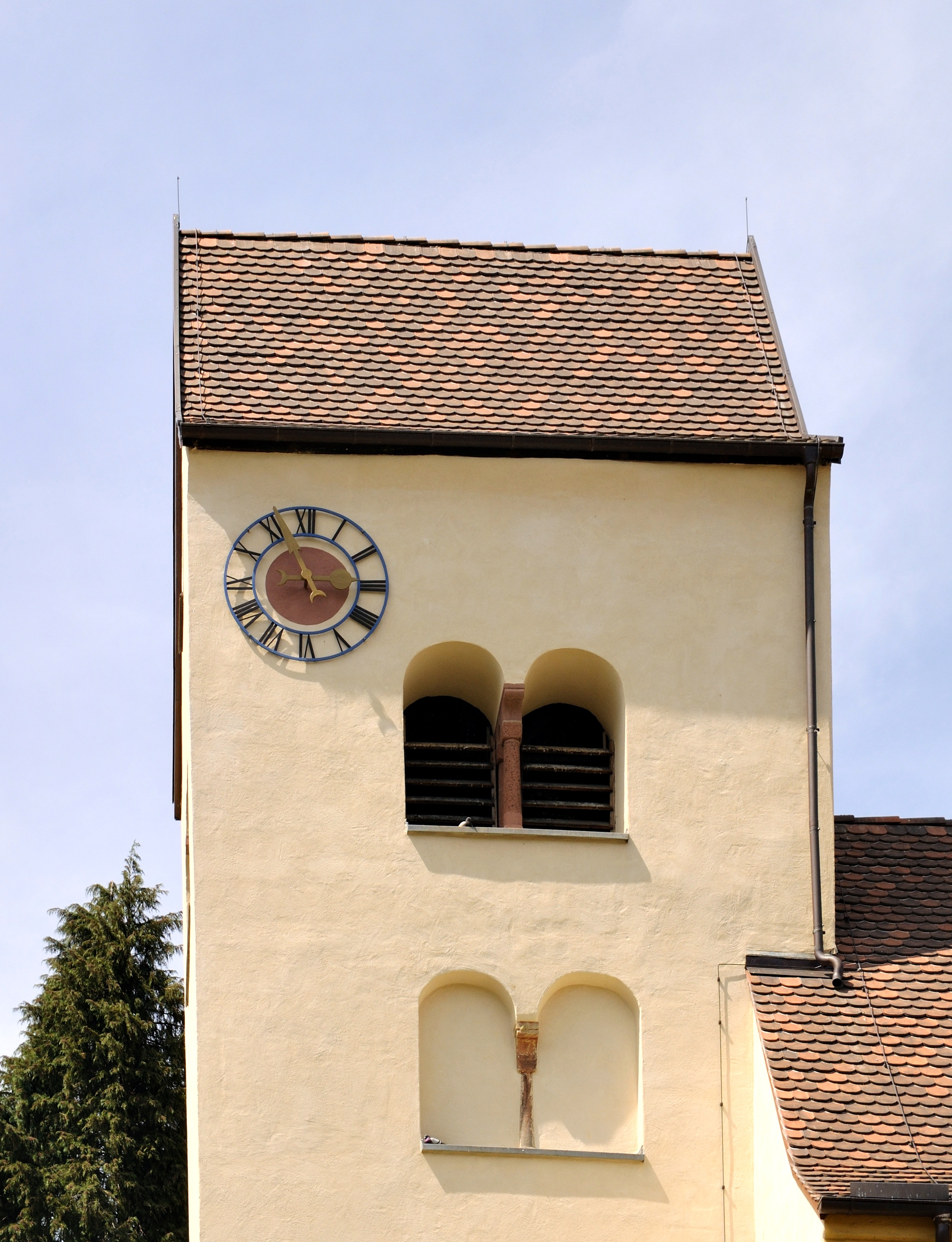 Niedereggenen: Protestant Church